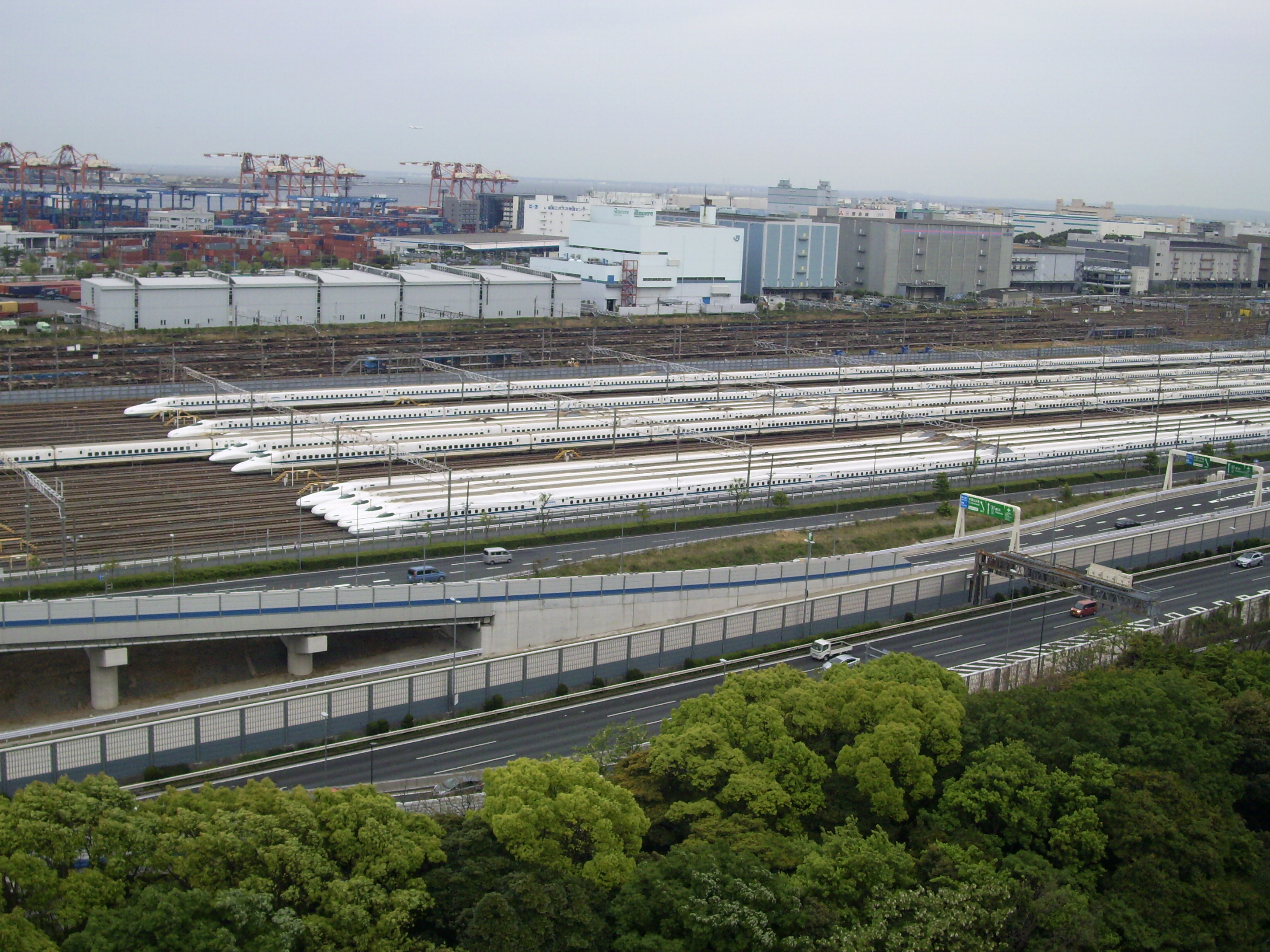 JR Central's Oi Depot in Tokyo